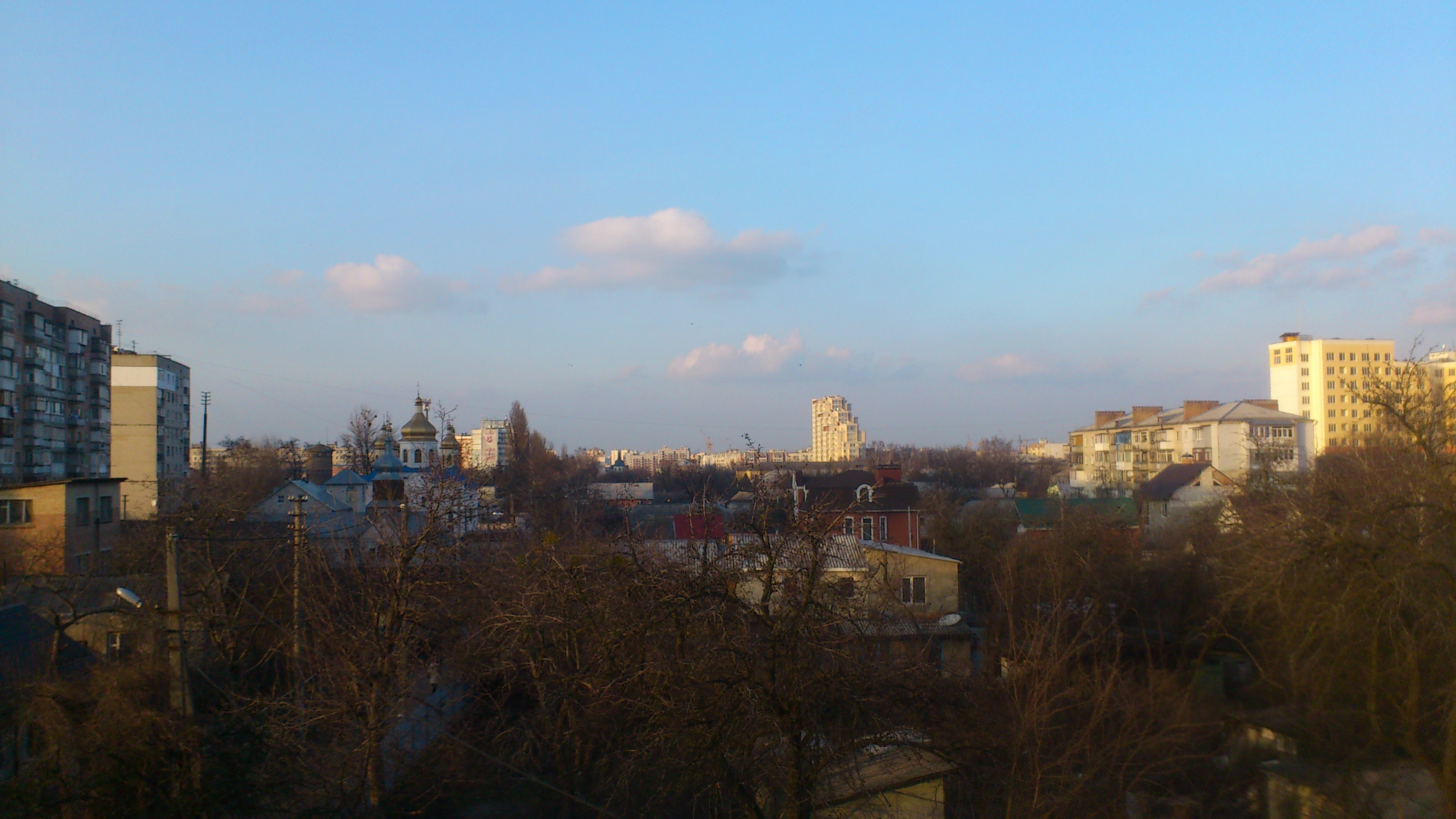 View of Vyshneve from the bridge above the railroad